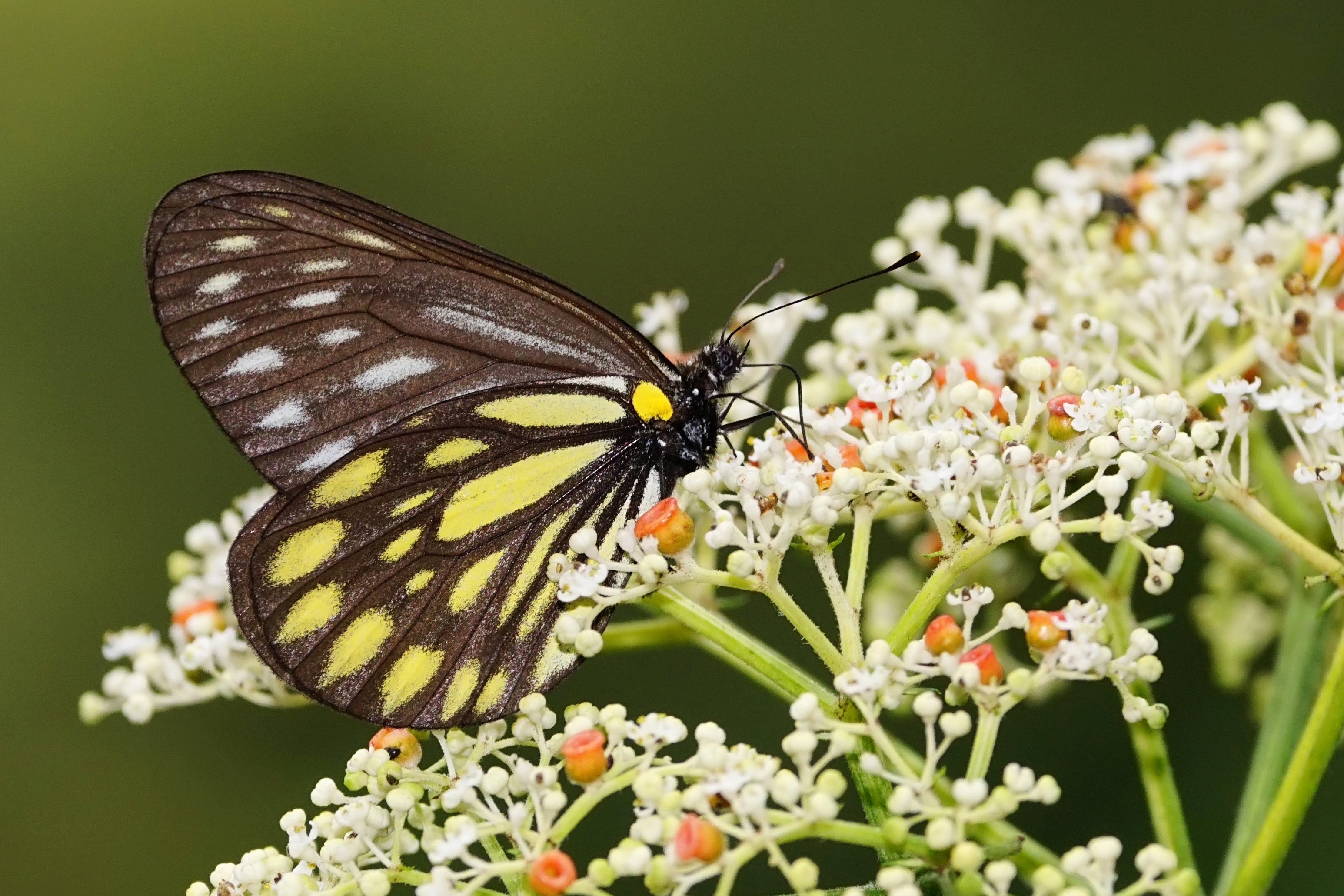 中文（台灣）: 流星絹粉蝶 Aporia agathon moltrechti